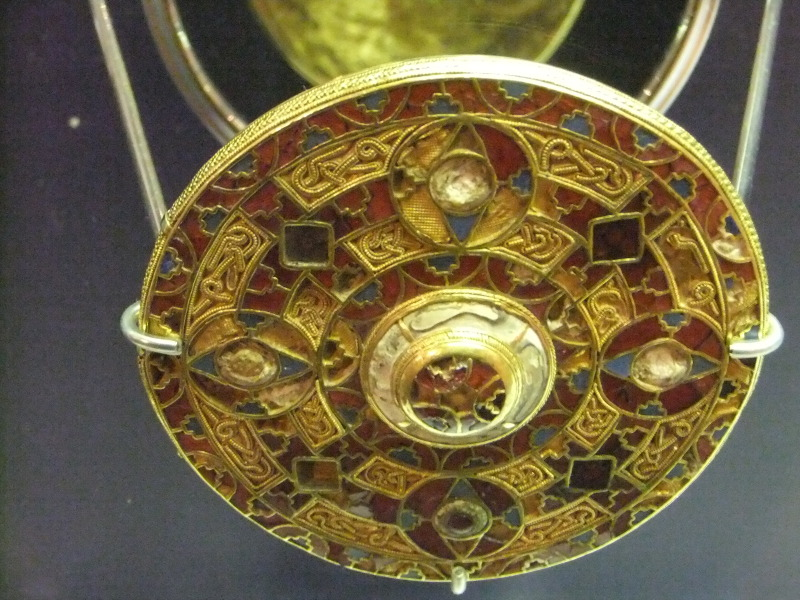 The Kingston Brooch, World Museum Liverpool, England. From grave 205, Kingston Down, Kent, 7th century AD.